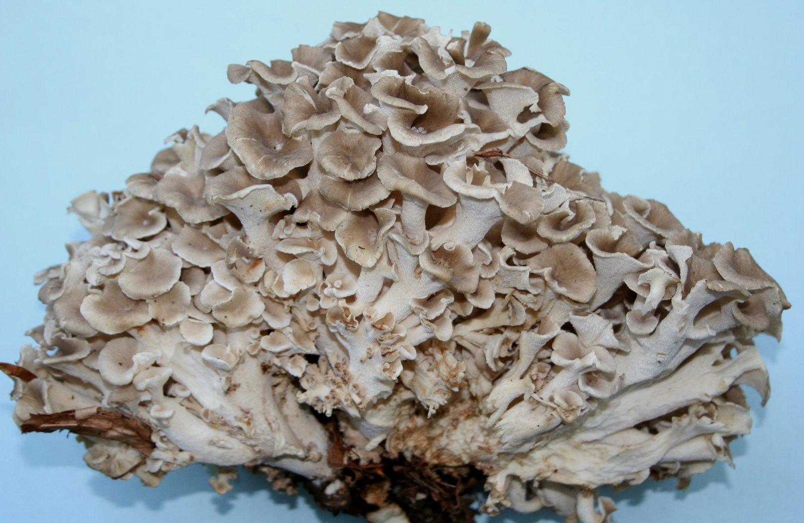 Polyporus umbellatus, Bucey-lès-Gy 70700, France.